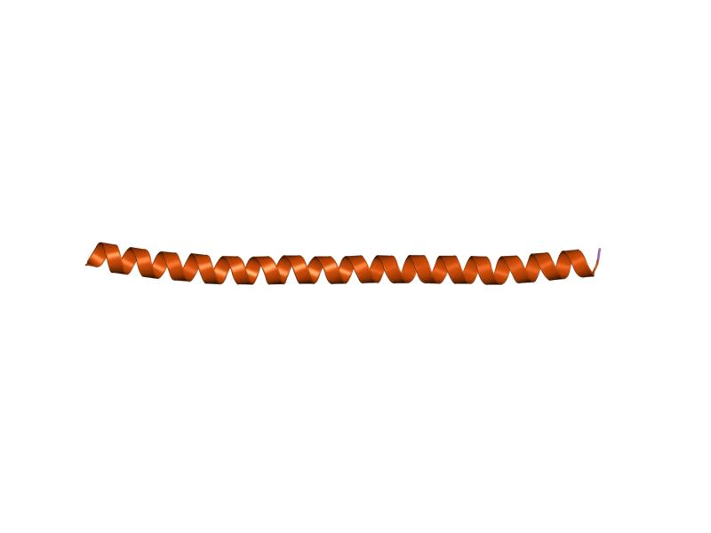 Cartoon representation of the molecular structure of protein registered with 1l2p code.